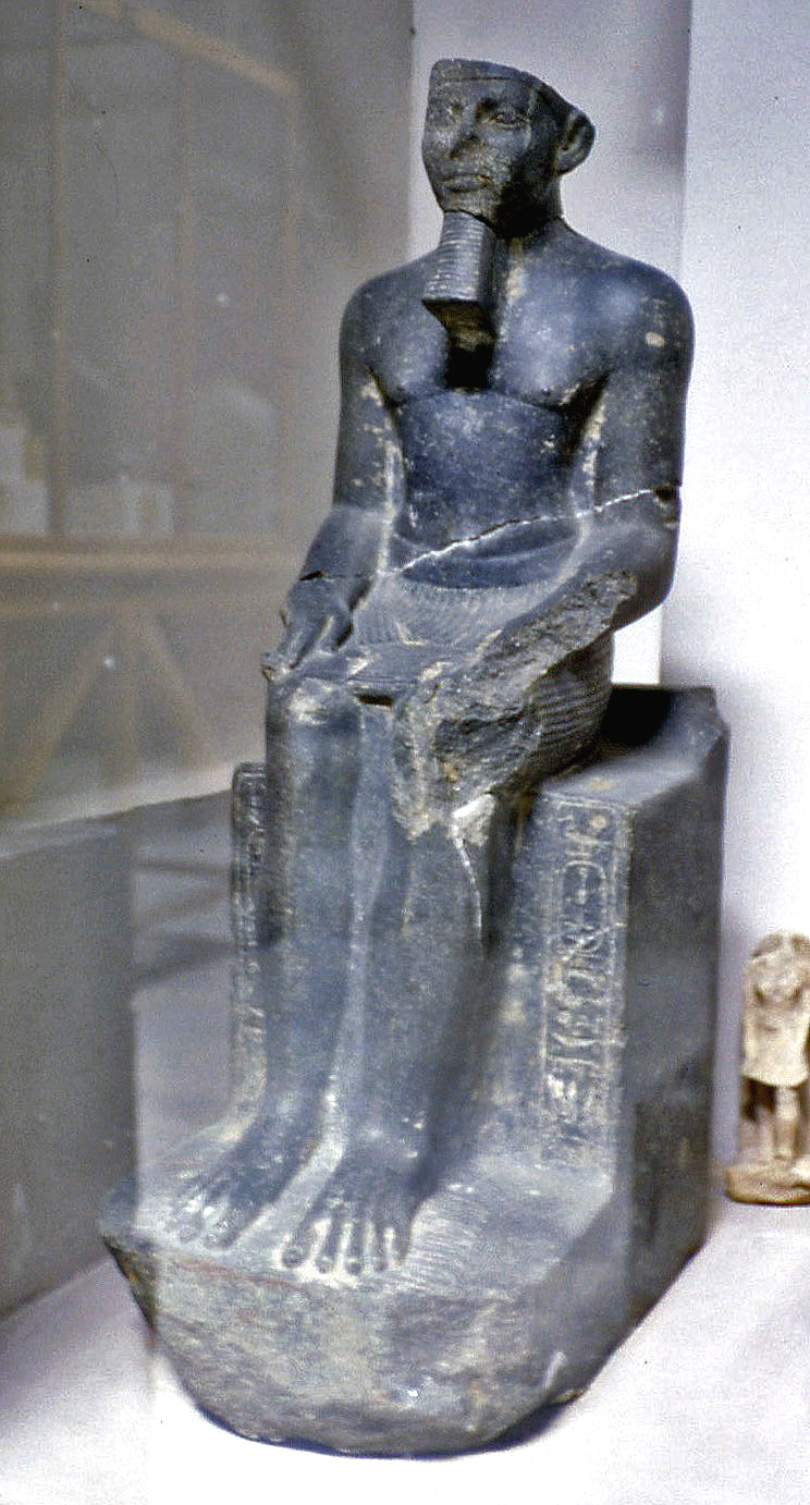 Statue of pharaoh Mersekhemre Neferhotep II, Egyptian Museum Cairo.